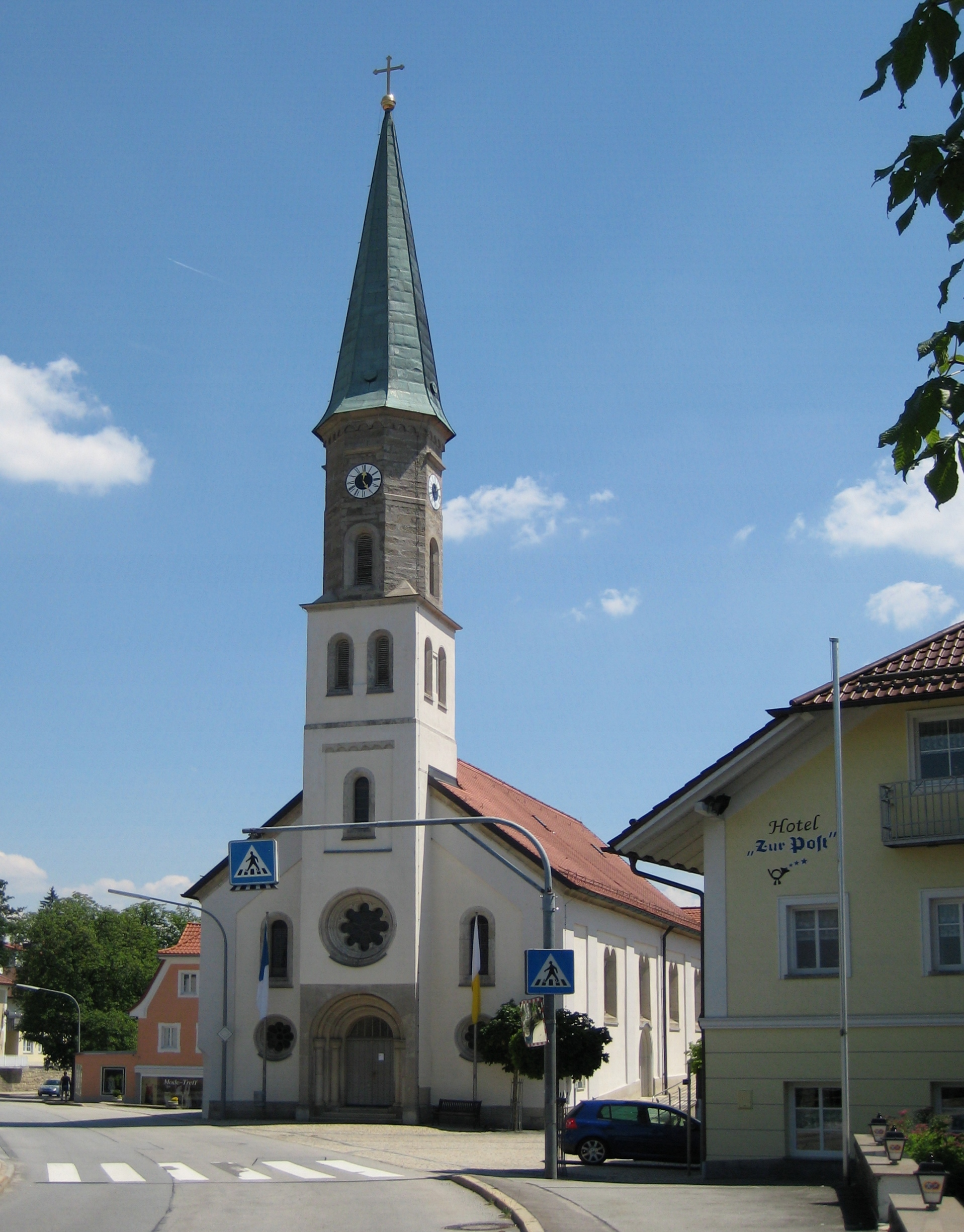 Büchlberg, St Ulrich Parish Church from west.